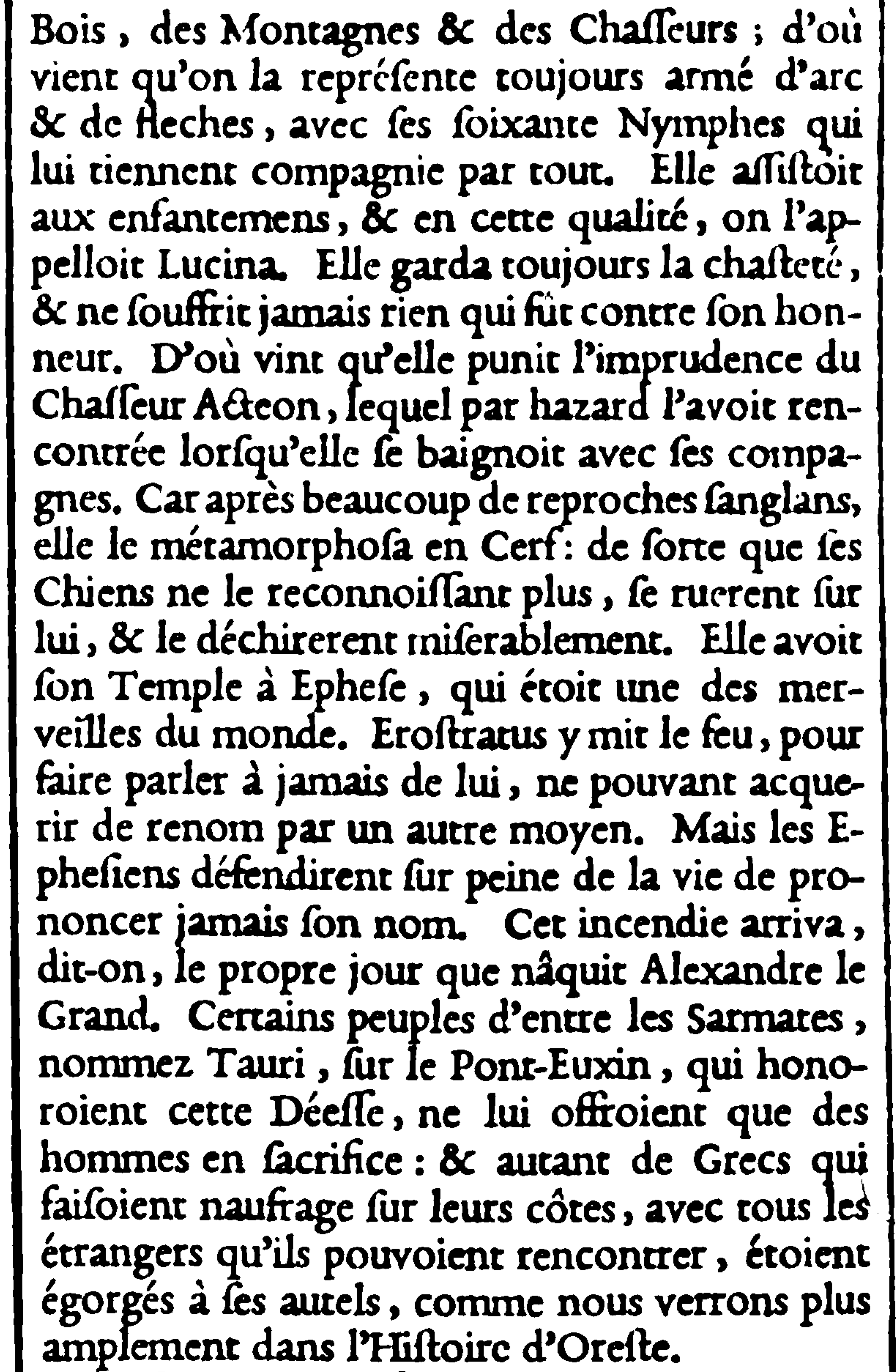 Petite Texte type intended for body text, created by Claude Garamond. Shown in Épreuves générales des caracteres, a specimen of type by Claude Lamesle in 1743. My source for the attribution is Vervliet, p. 223.